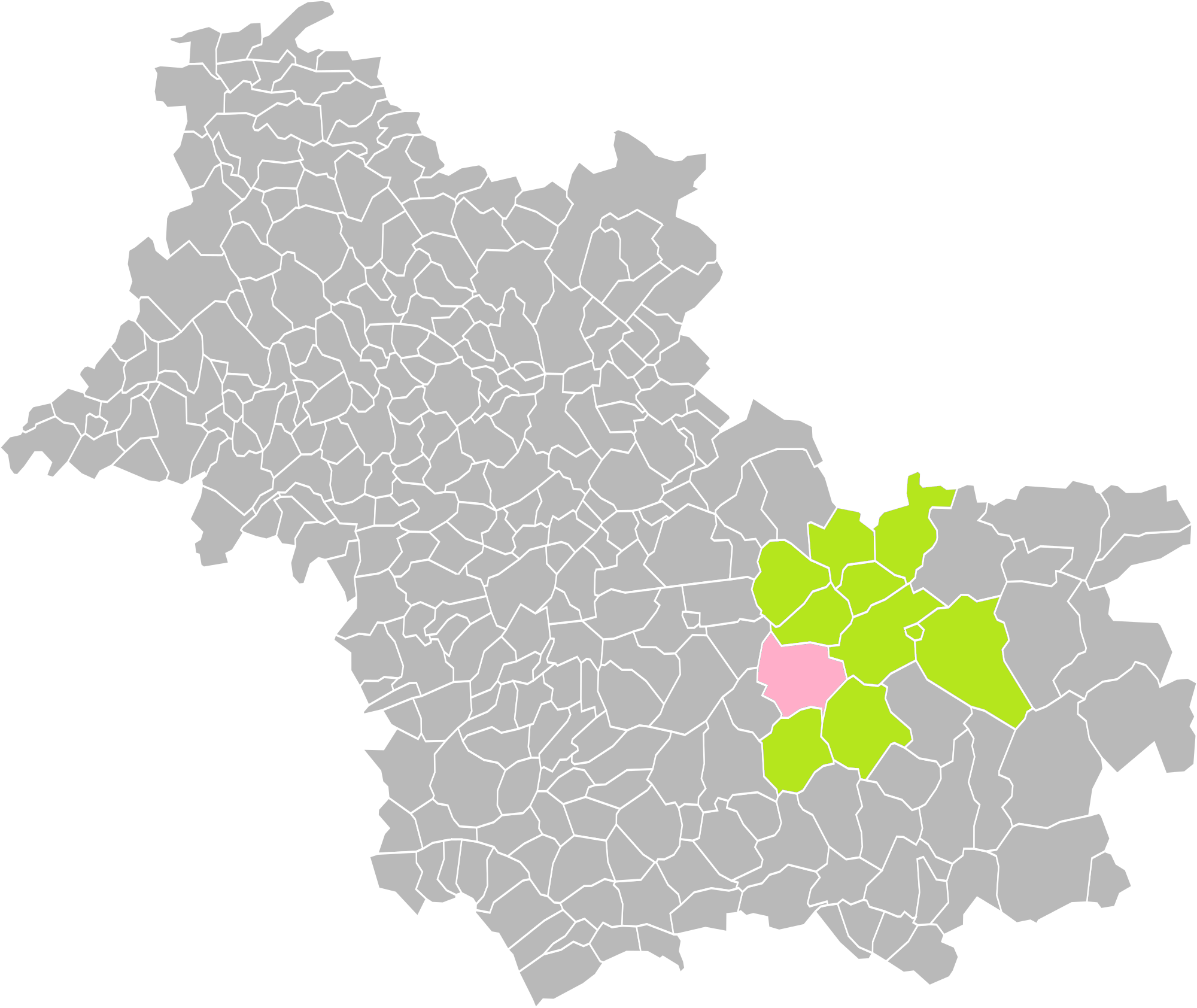 Location of the commune of Vernou-en-Sologne in the Communauté de communes de la Sologne des Étangs (Loir-et-Cher)